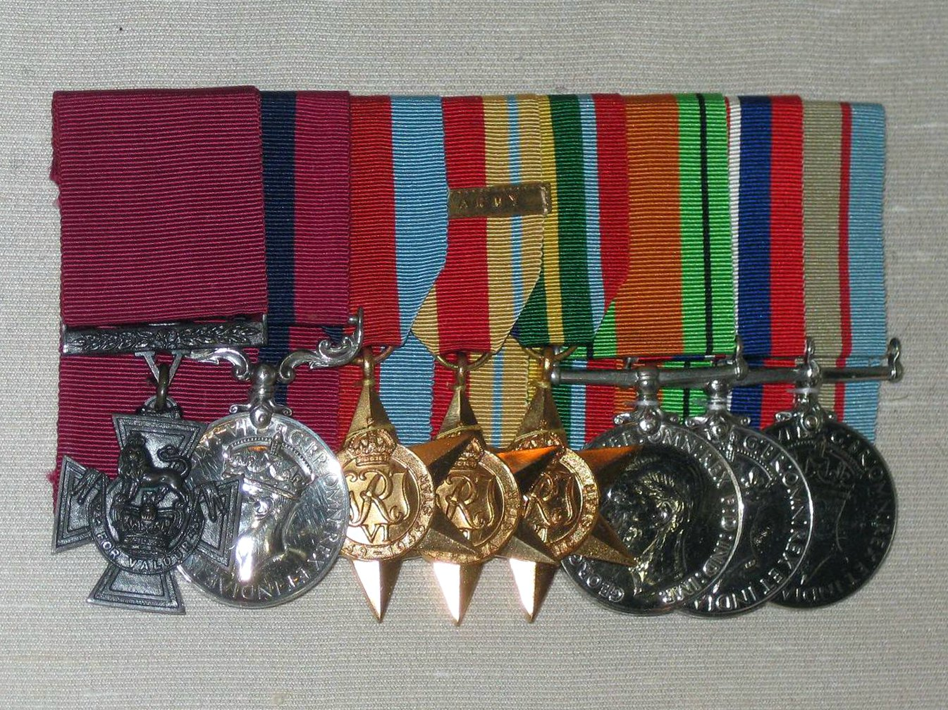 From File:Tom Derrick medals.jpg Tom Derrick's medals File:Tom_Derrick_medals.JPG Make horizontal, and crop "white space".